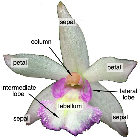 Not a photo